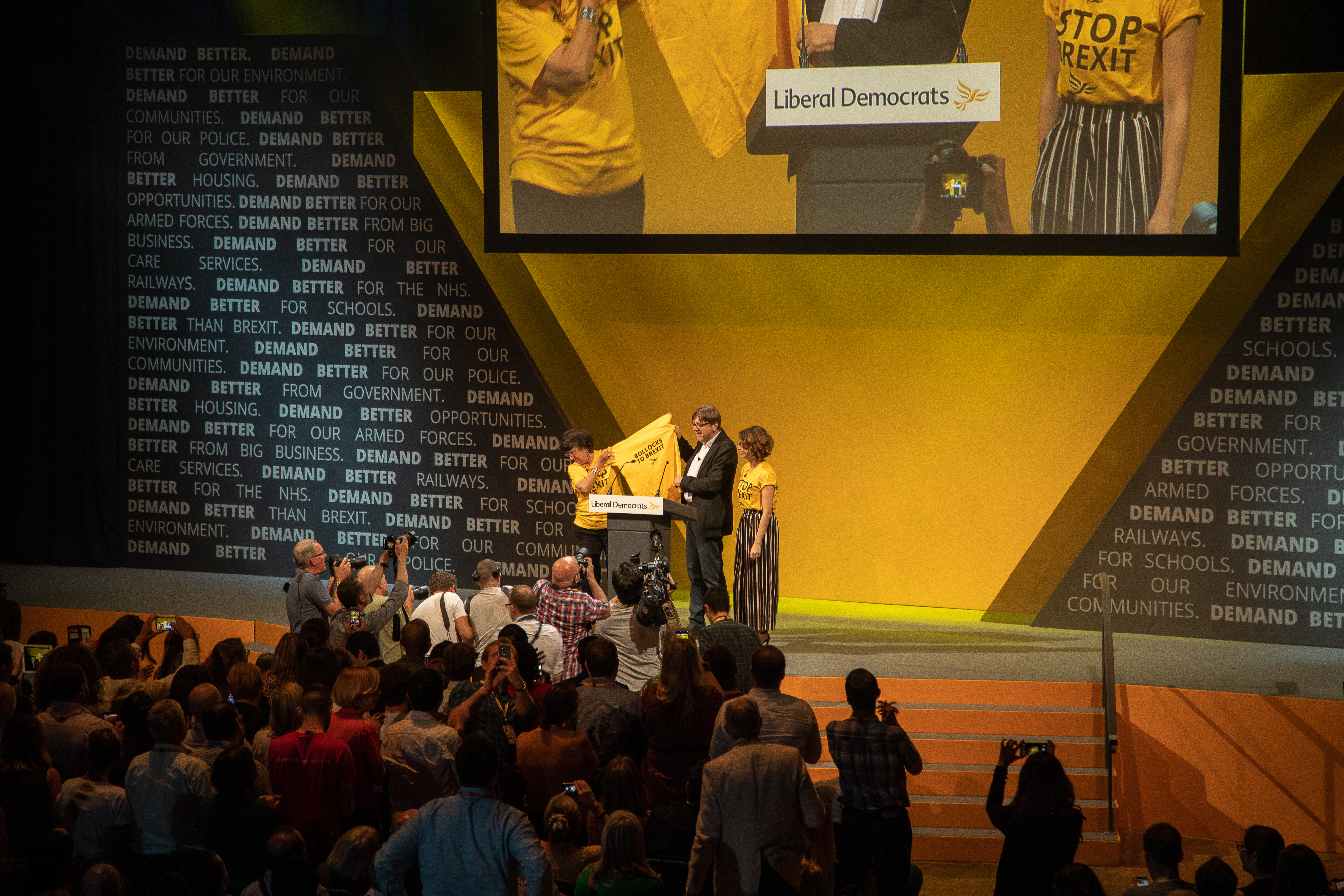 Guy Verhofstadt at the Lib Dem party autumn conference 2019.